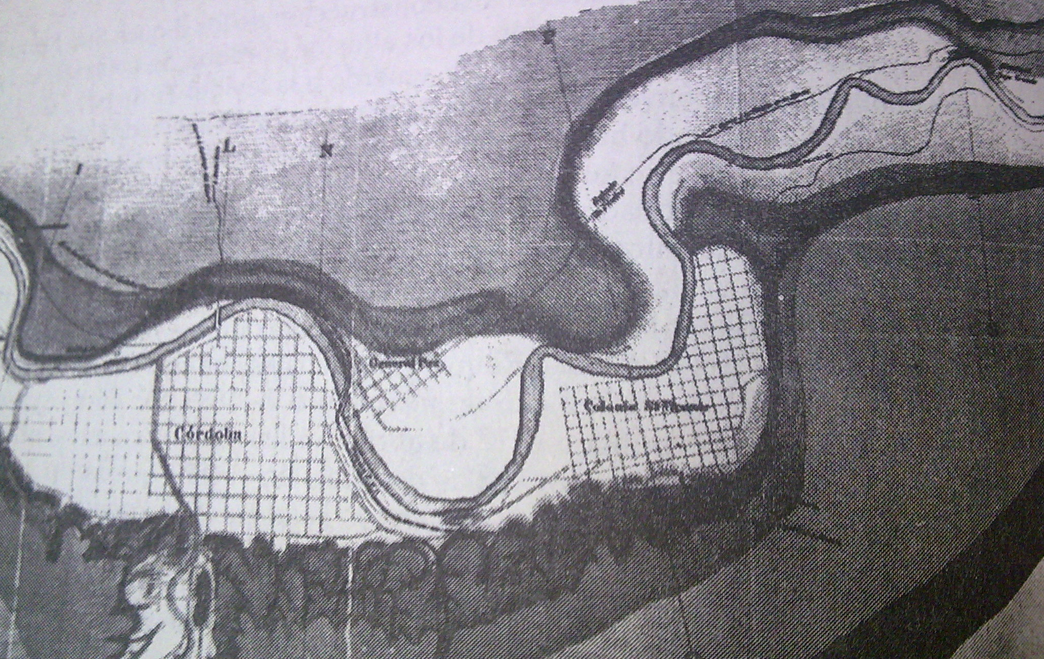 One of the first maps of Cordoba, Argentina.